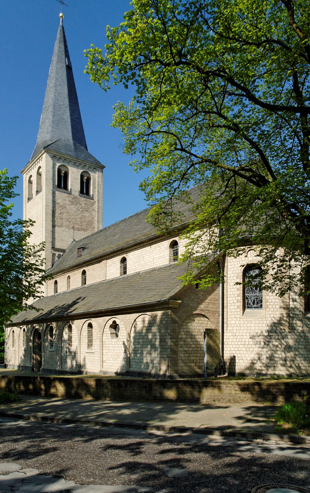 Saint Hubertus in Düsseldorf-Itter, Germany